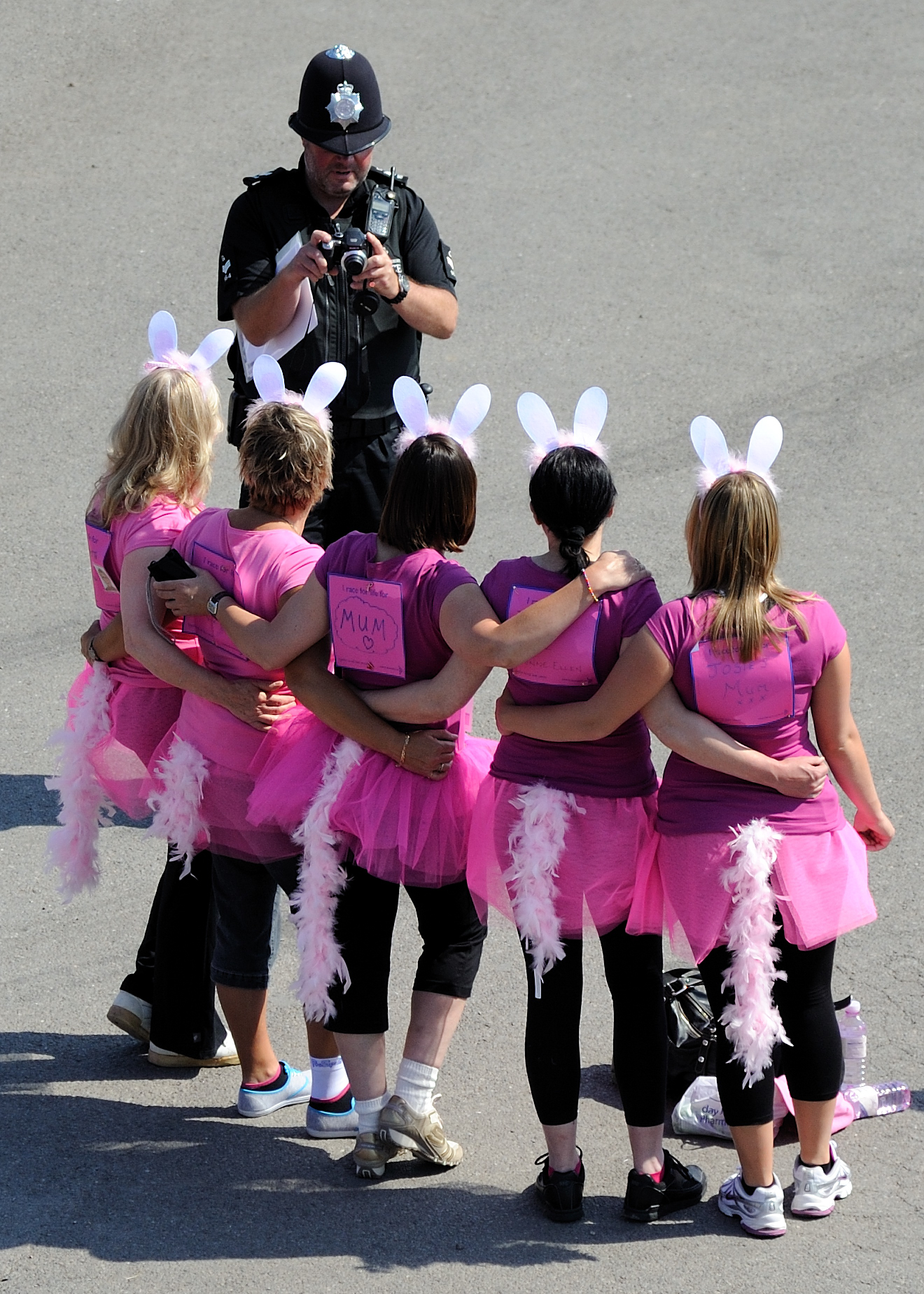 Race for Life - Cheltenham Race Course 2011. On the back of each runner is a placard identifying someone they know who has been affected by cancer.